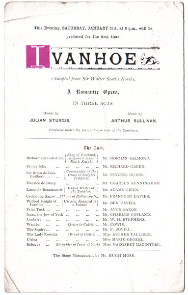 Souvenir programme for the first night of Arthur Sullivan's Ivanhoe (1891)